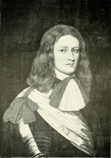 Archibald Campbell, 9th Earl of Argyll, as a young man, by unknown artist. Painting of c.1650 formerly in possession of Lord Balcarres